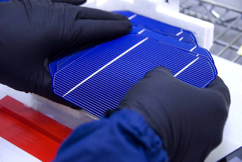 A finished wafer. 2/24/2009